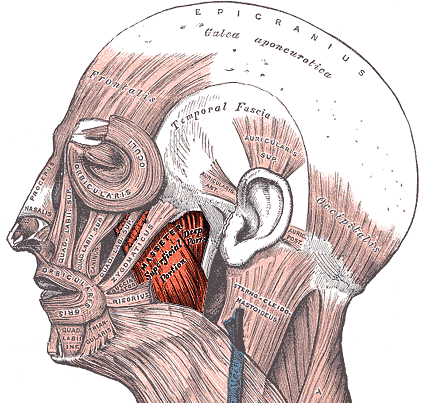 File adapted from File:Gray378.png. Cropped and highlighted masseter muscle. Tweaked image sharpness.